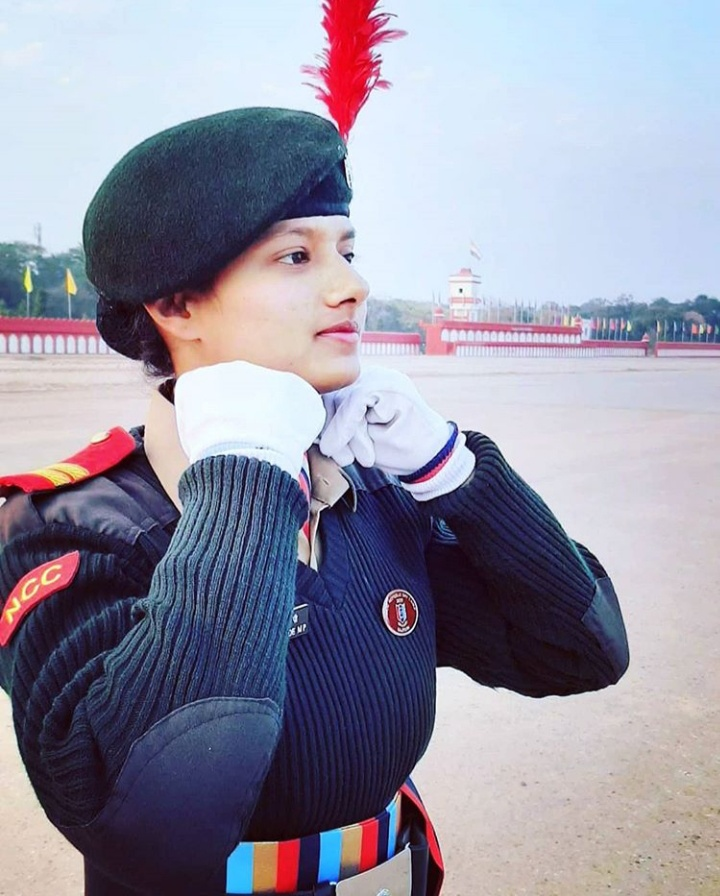 NCC Parade Commander 2020